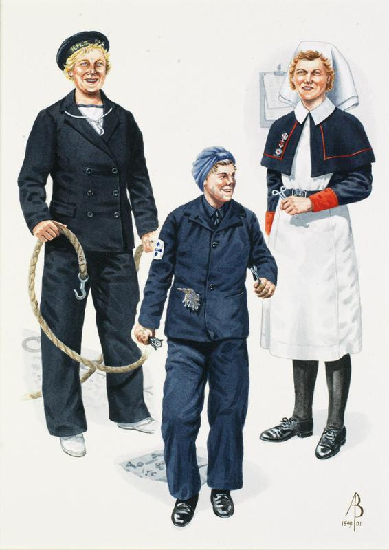 Wrns and Qarnns- Wrns Boat Crew, Home Waters 1943; Wrns Motor Mechanic, Home Waters 1943; Nursing Sister, Qarnns Reserve, 1942 image: Three depictions of female naval personnel. On the left is a member of the WRNS Boat Crew, holding a rope and wearing a naval uniform consisting of a dark blue trouser suit and cap. In the centre is a WRNS Motor Mechanic wearing overalls and a head scarf. On the right a Nursing Sister of the QARNNS Reserve, wearing a white nurses' uniform with a blue and red cape.